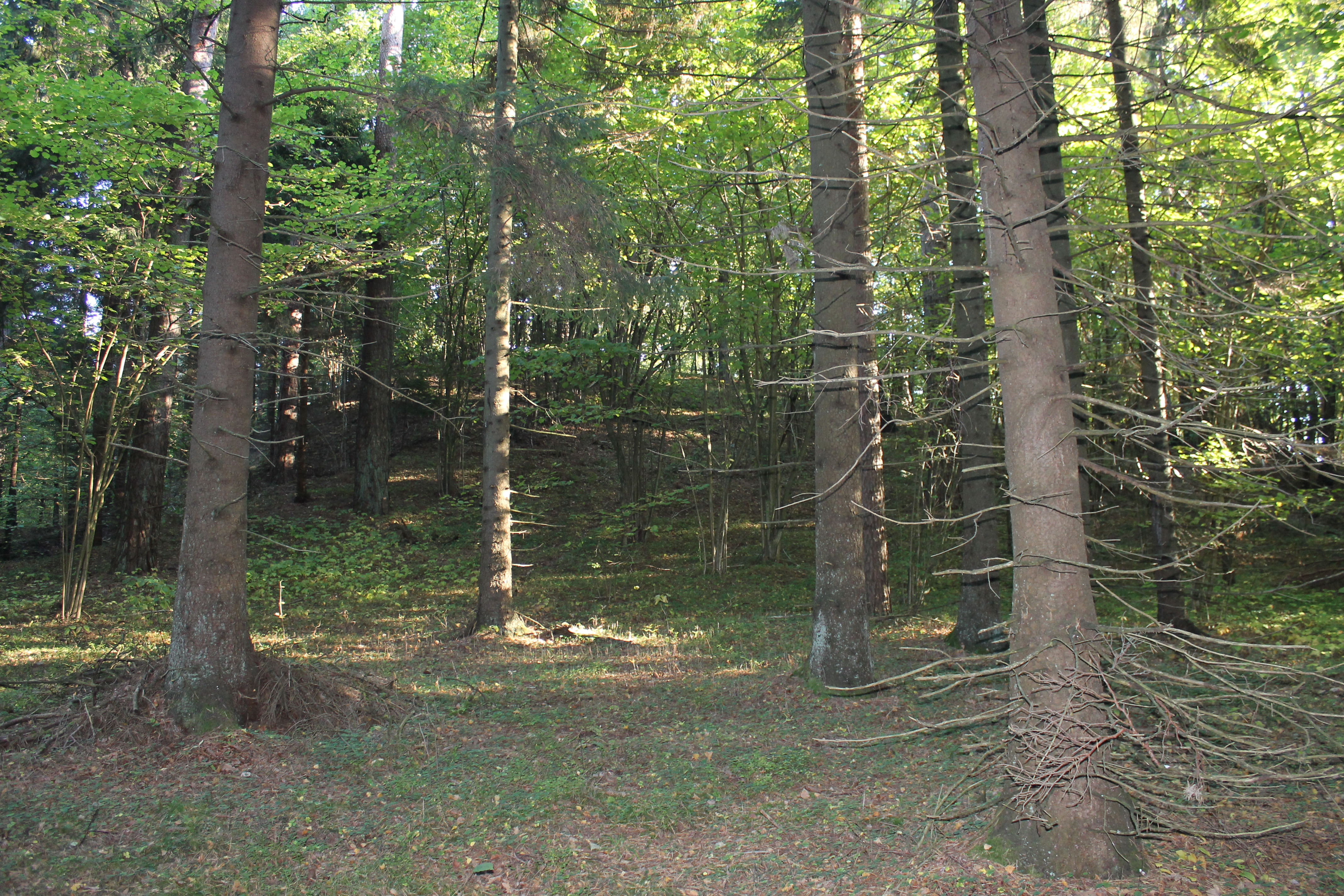 Joskaudai Hillfort, Kretinga district, Lithuania